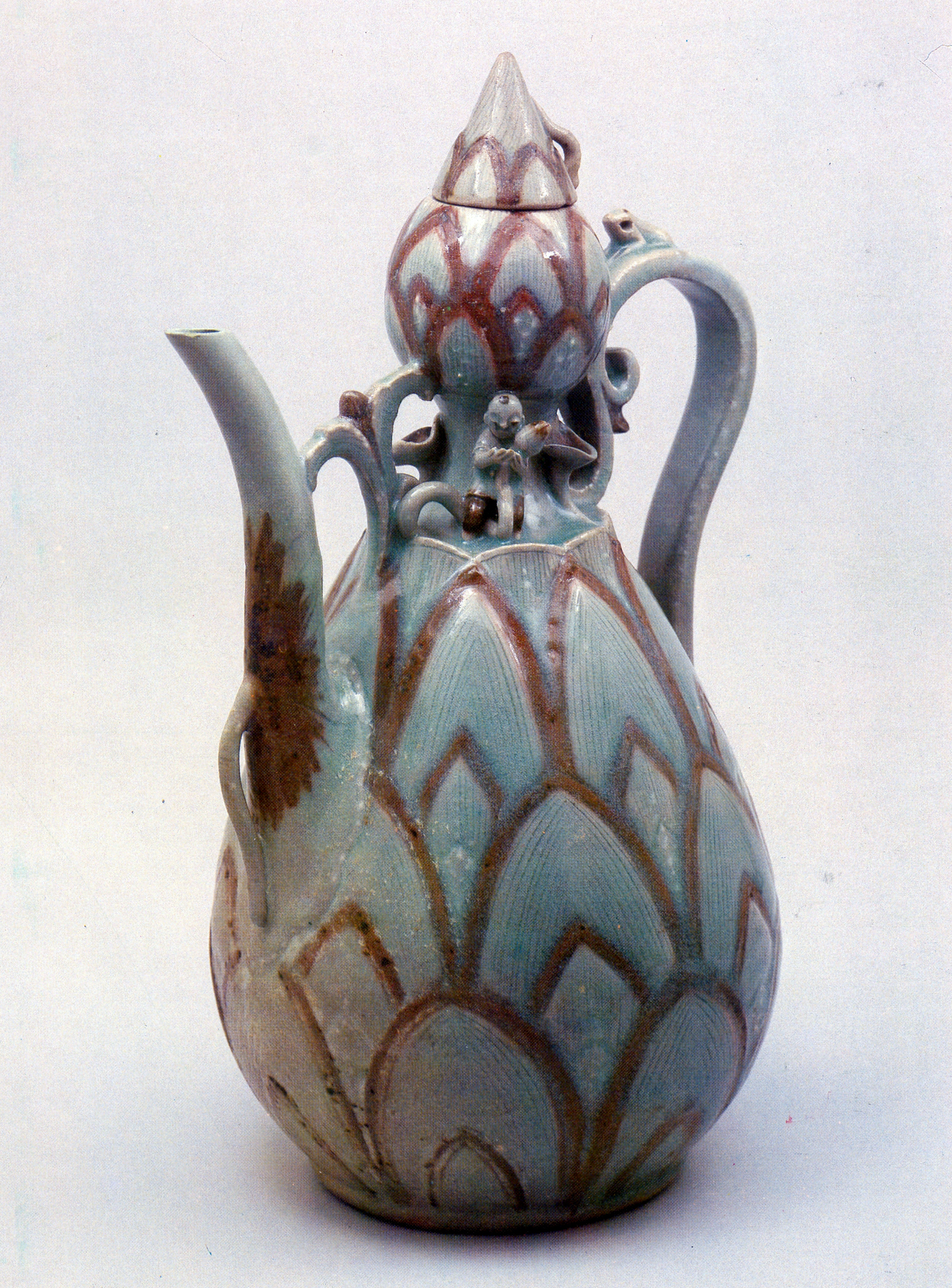 Gourd-shaped Celadon Ewer with Underglaze Copper Lotus Design